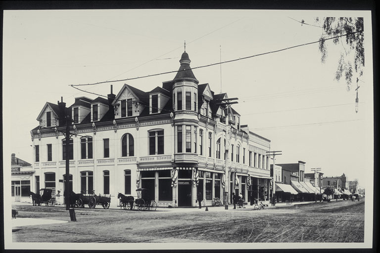 In 1890 the Santa Monica Public Library occupied two rooms on the second floor of the Bank of Santa Monica Building, located at 3rd Street and Santa Monica Boulevard in Santa Monica, California.